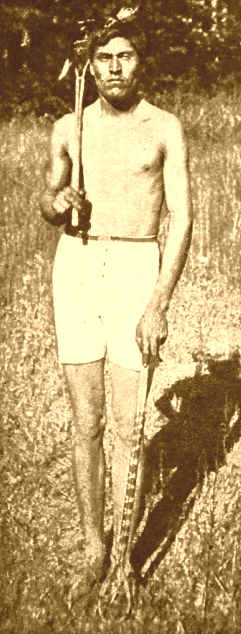 An early photograph of a traditional Cherokee stickball player.